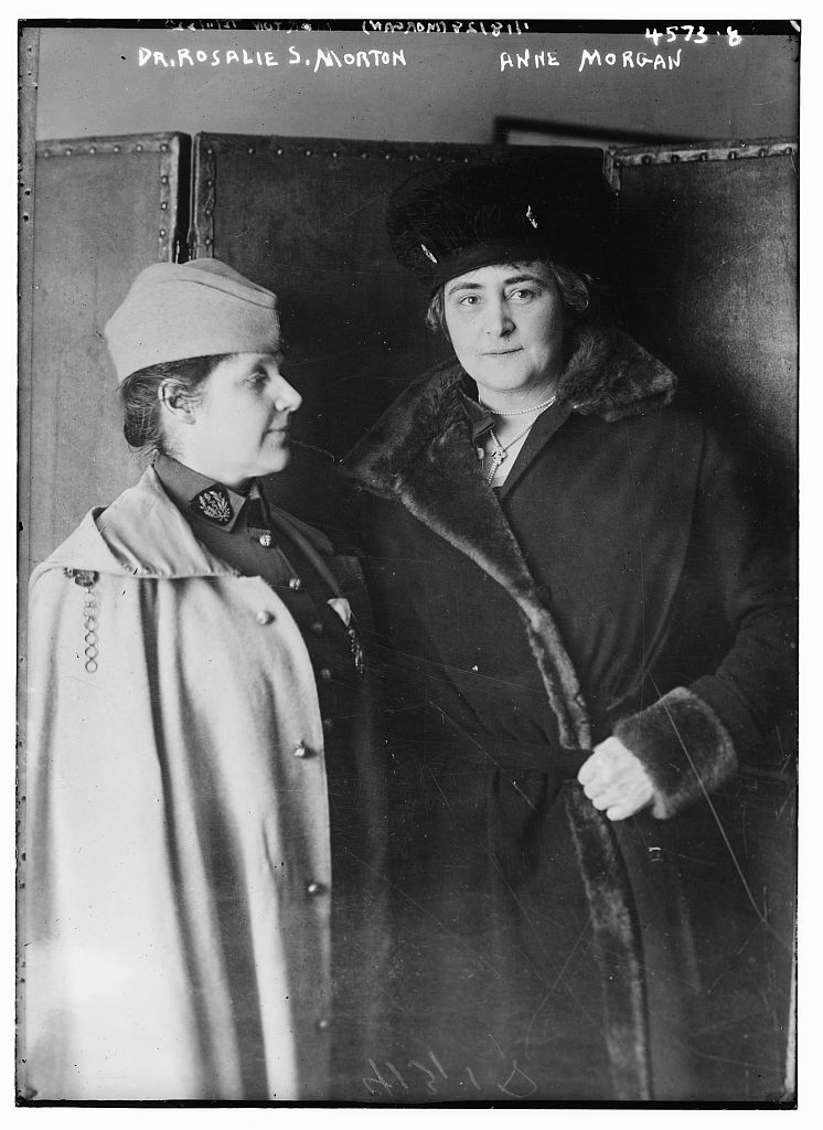 Rosalie Slaughter Morton and Anne Morgan in 1918